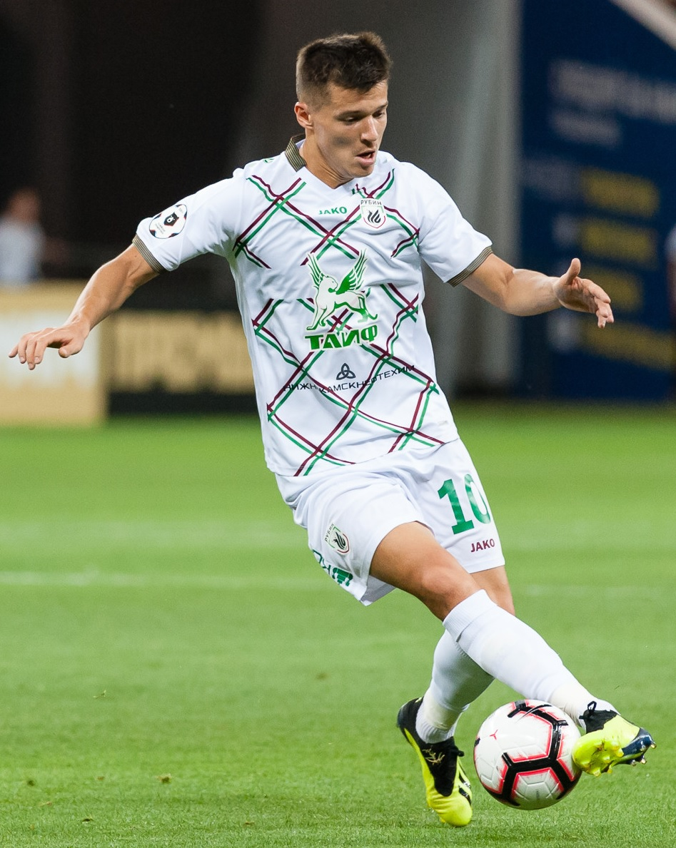 Dmitry Poloz with FC Rubin Kazan in a game against FC Rostov.